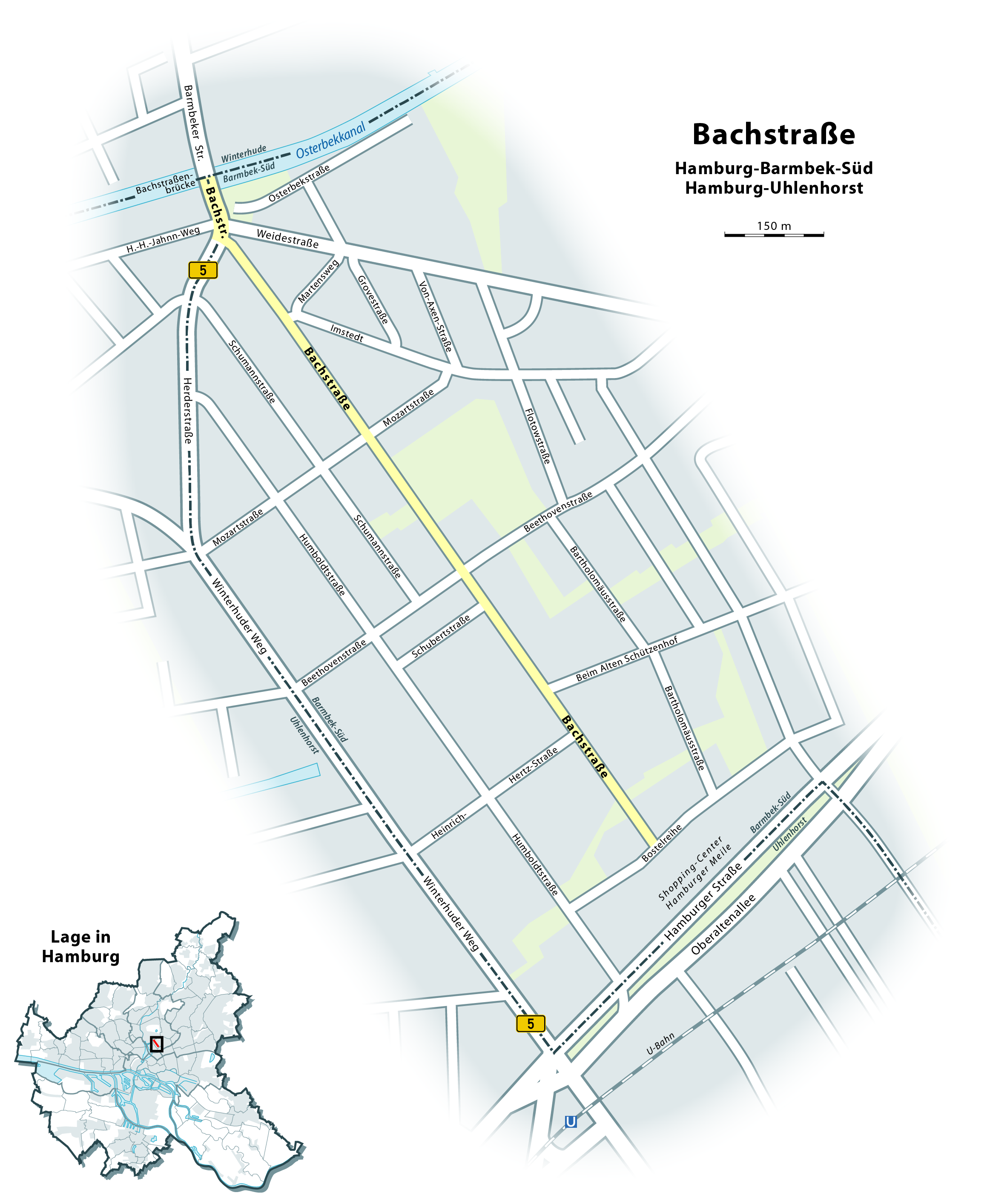 Map of Bachstraße, Hamburg